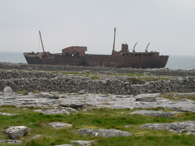 Wreck of the 'Plassy'. Inisheer